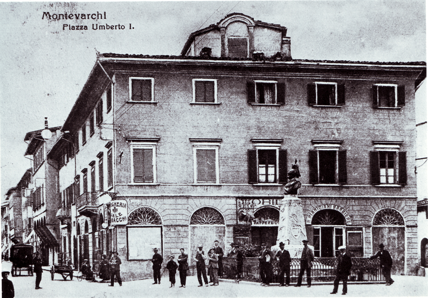 Montevarchi: Piazza Presto in 1905 when it was renamed "Piazza Umberto I" thanks to the erection of the monument to Umberto the Ist